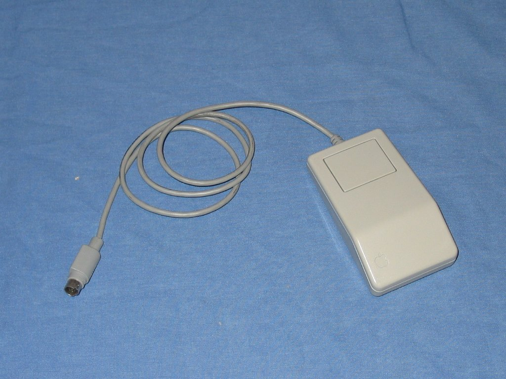 Photo of an Apple Desktop Bus Mouse